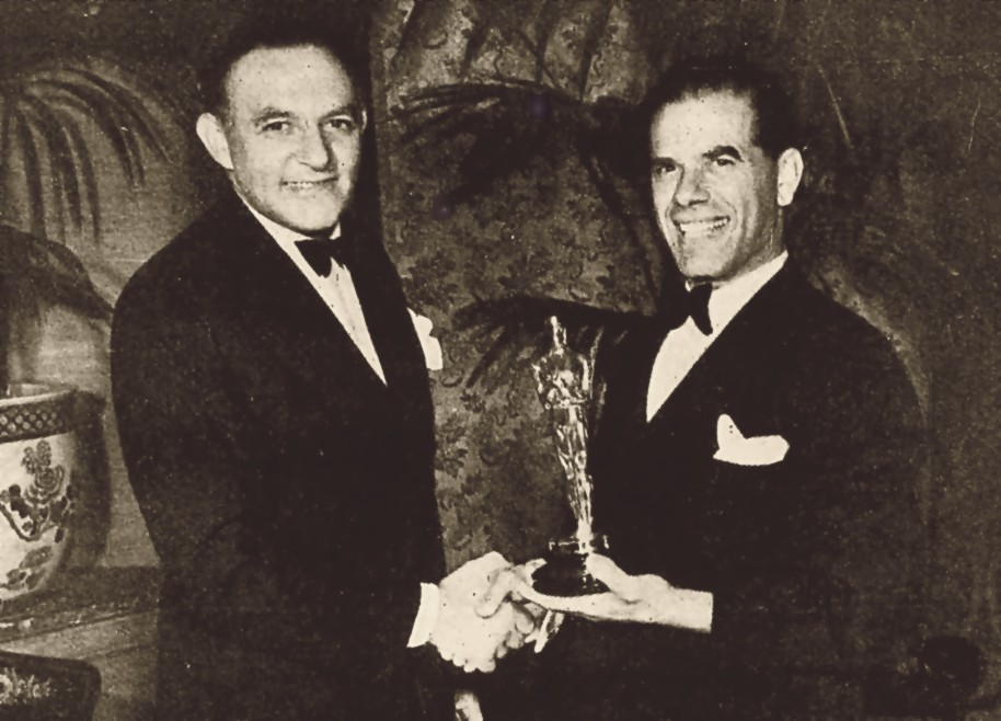 L-R: Columbia studio head Harry Cohn and director Frank Capra, who won best director for You Can't Take It With You. Academy Award ceremonies for 1938 films was held on February 23, 1939.